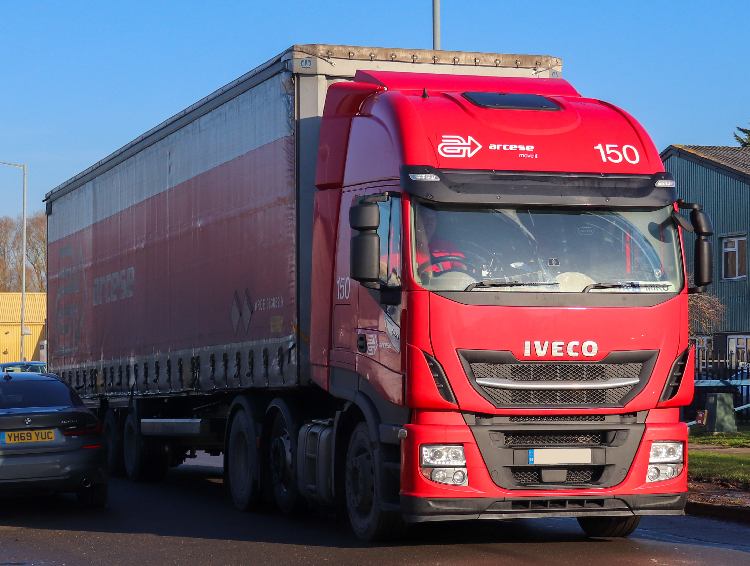 2019 Iveco Stralis Taken in Leamington Spa